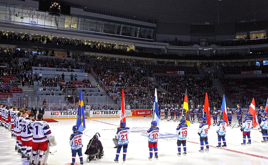 Opening XV FIFA World Junior Hockey Championship